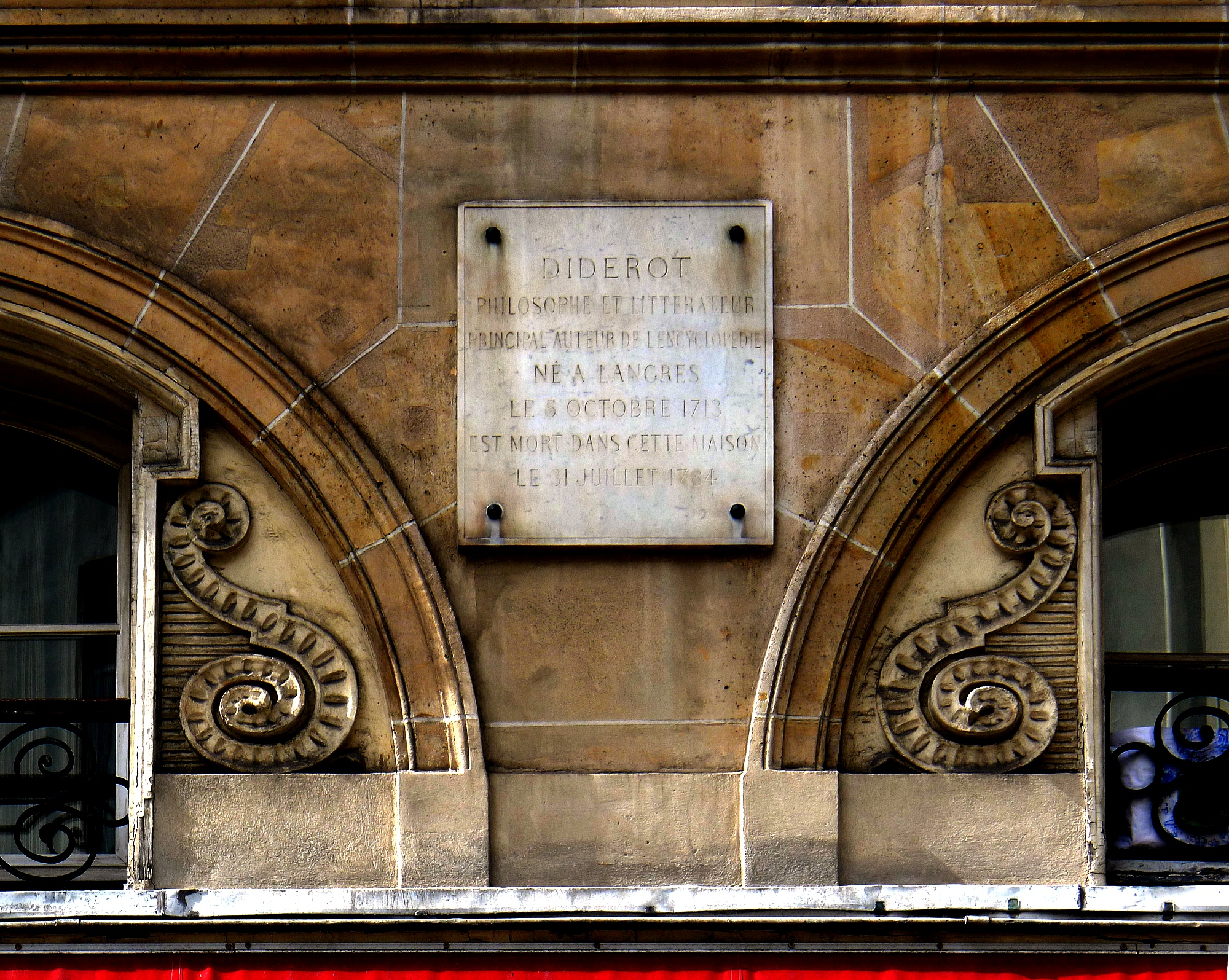 Richelieu street (n°39) - Paris. Plaque on Diderot death place.